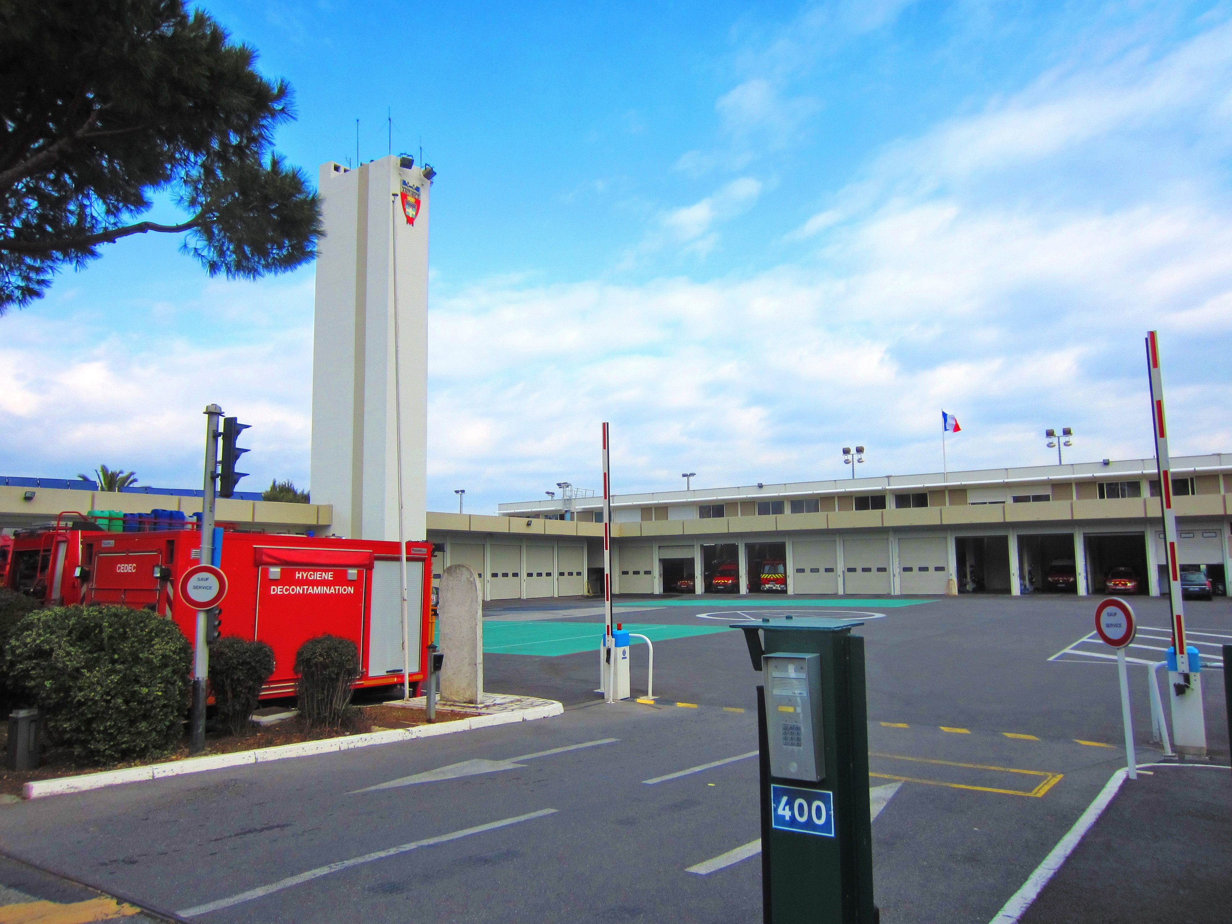 fire station Antibes